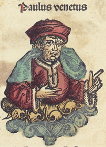 Illustration from the Nuremberg Chronicle (Latin copy in Sao Paulo)